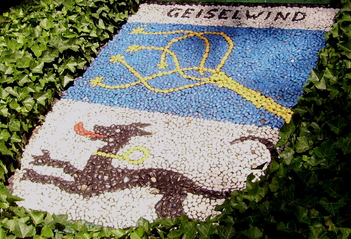 Geiselwind, Germany